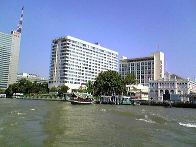 The Oriental Bangkok